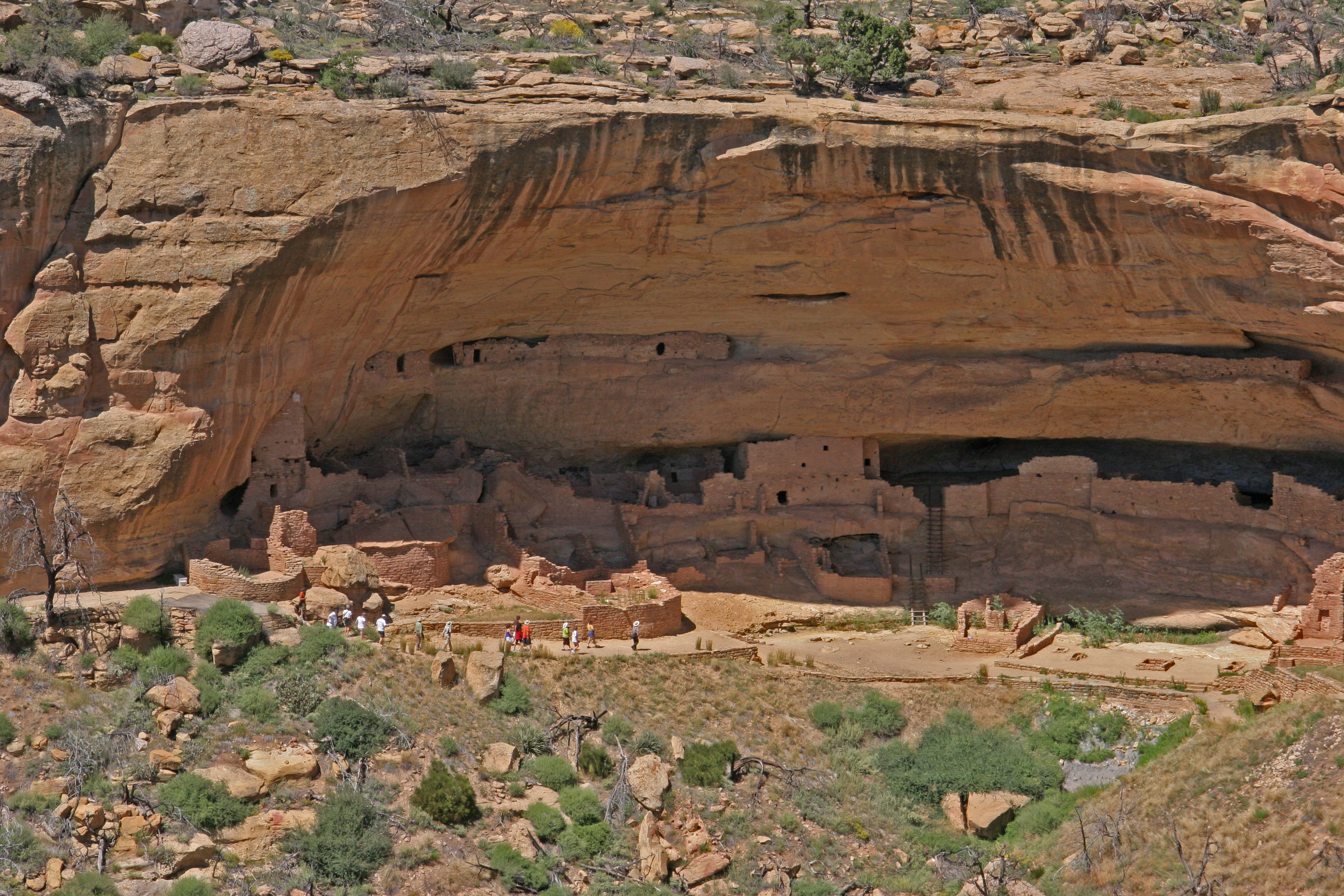 Long House in the Mesa Verde National Park